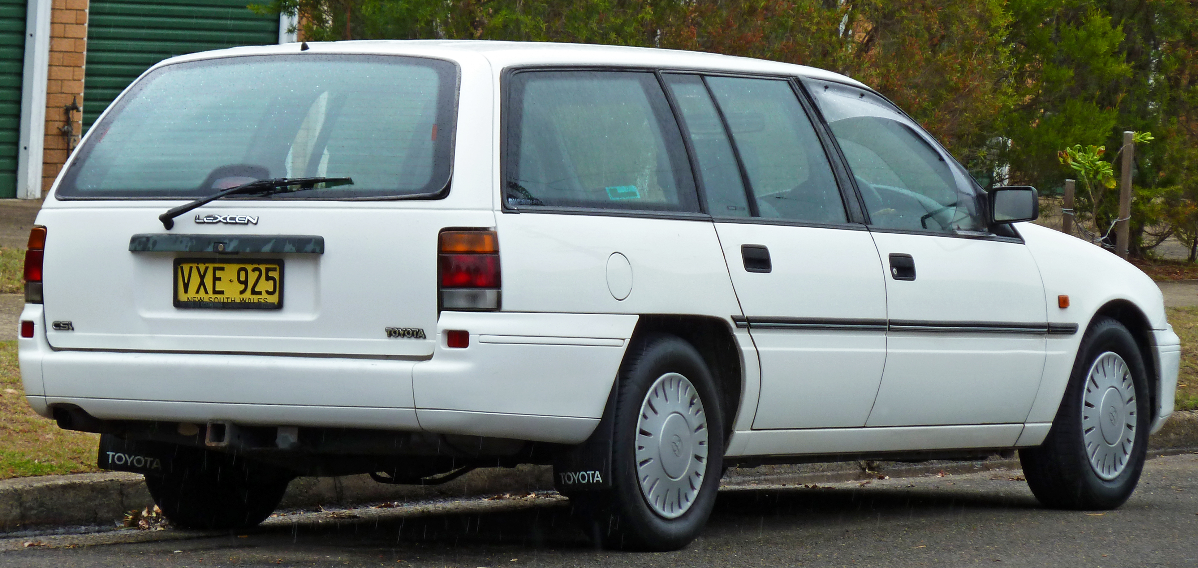 1993–1995 Toyota Lexcen (T3) CSi station wagon. Photographed in Dolls Point, New South Wales, Australia.